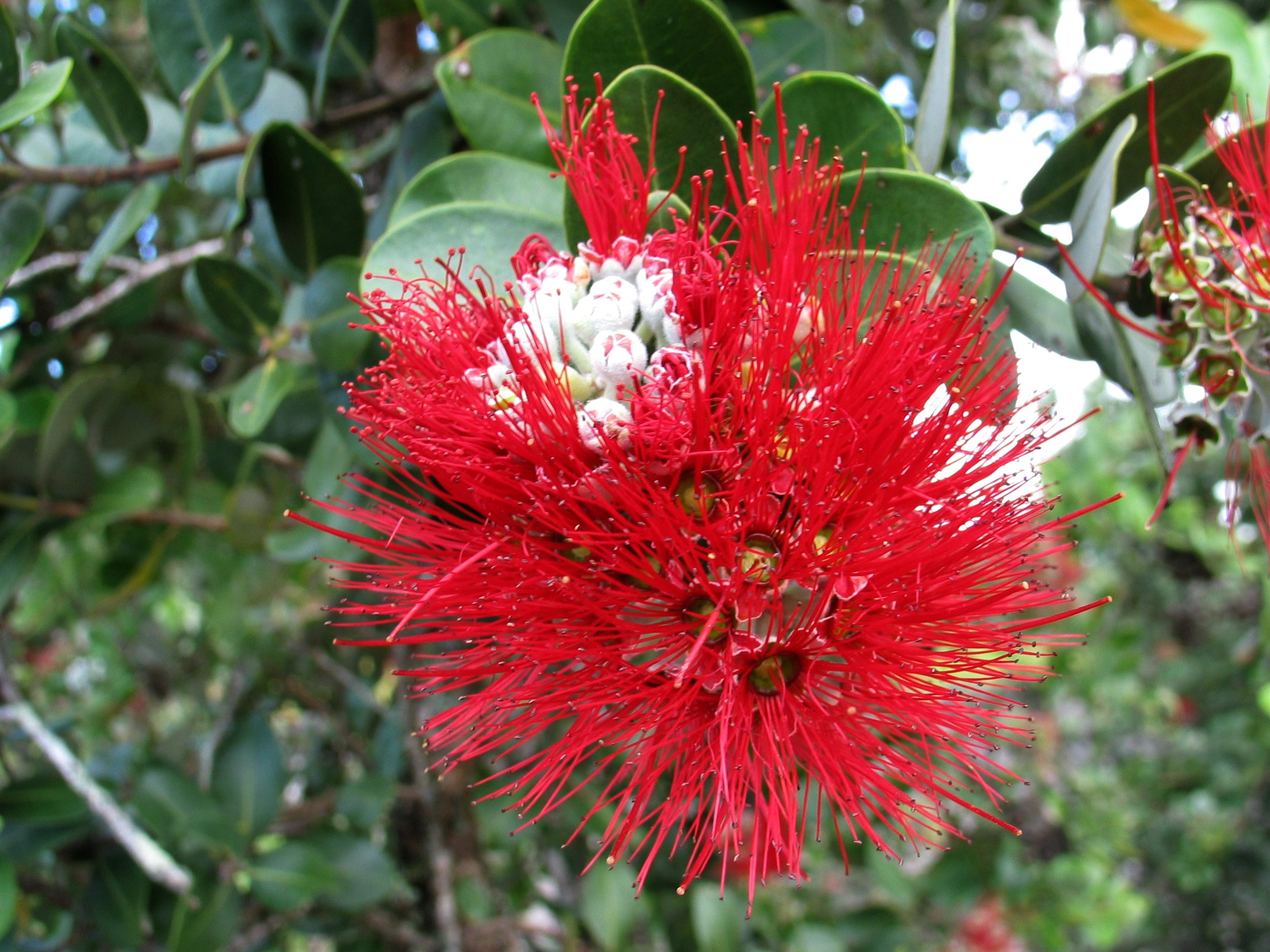 ʻŌhiʻa, ʻŌhiʻa lehua, Lehua Myrtaceae Endemic to the Hawaiian Islands Hawaiʻi Island (Cultivated) NPH00036